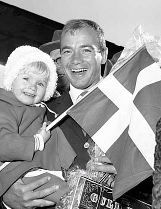 Henning Wind returns home from the 1964 Olympics